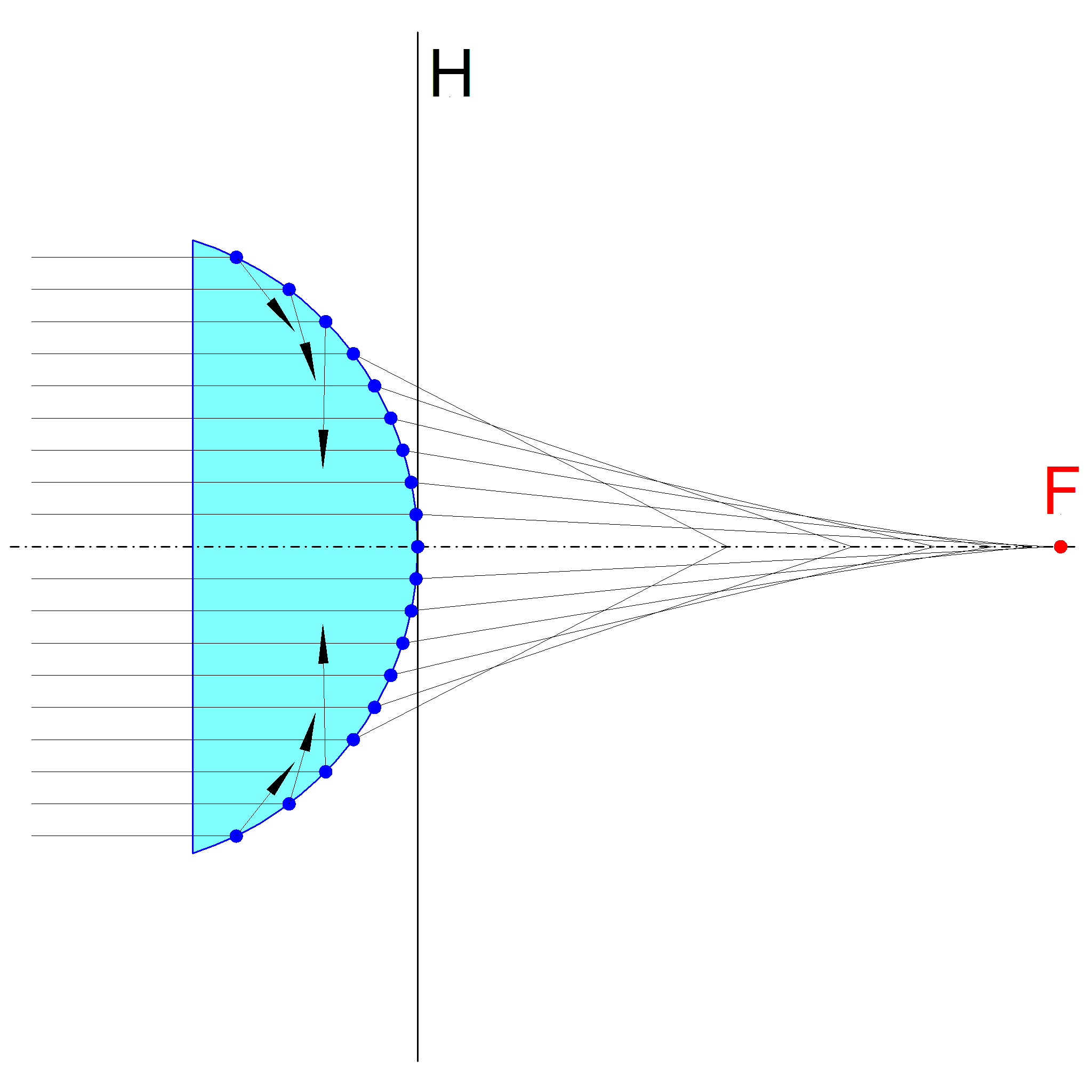 Example of a spheric plano-convex lens with the principal plane H and the focal point F